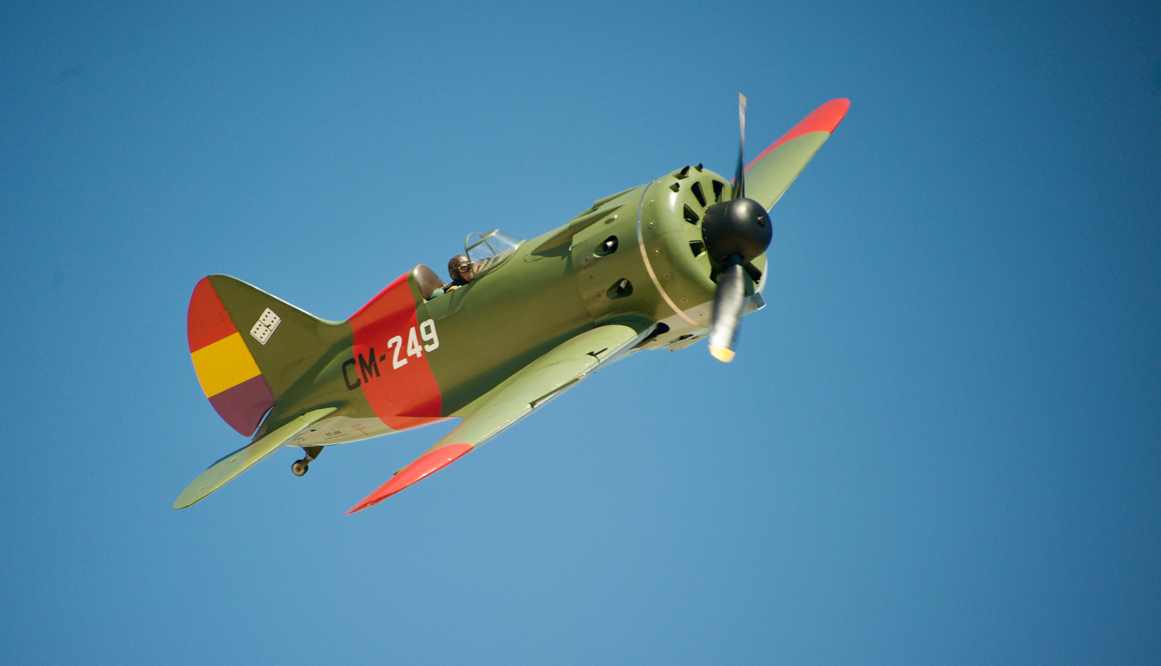 Taken at Cuatro Vientos airport. This aircraft is property of the Fundación Infante de Orleans